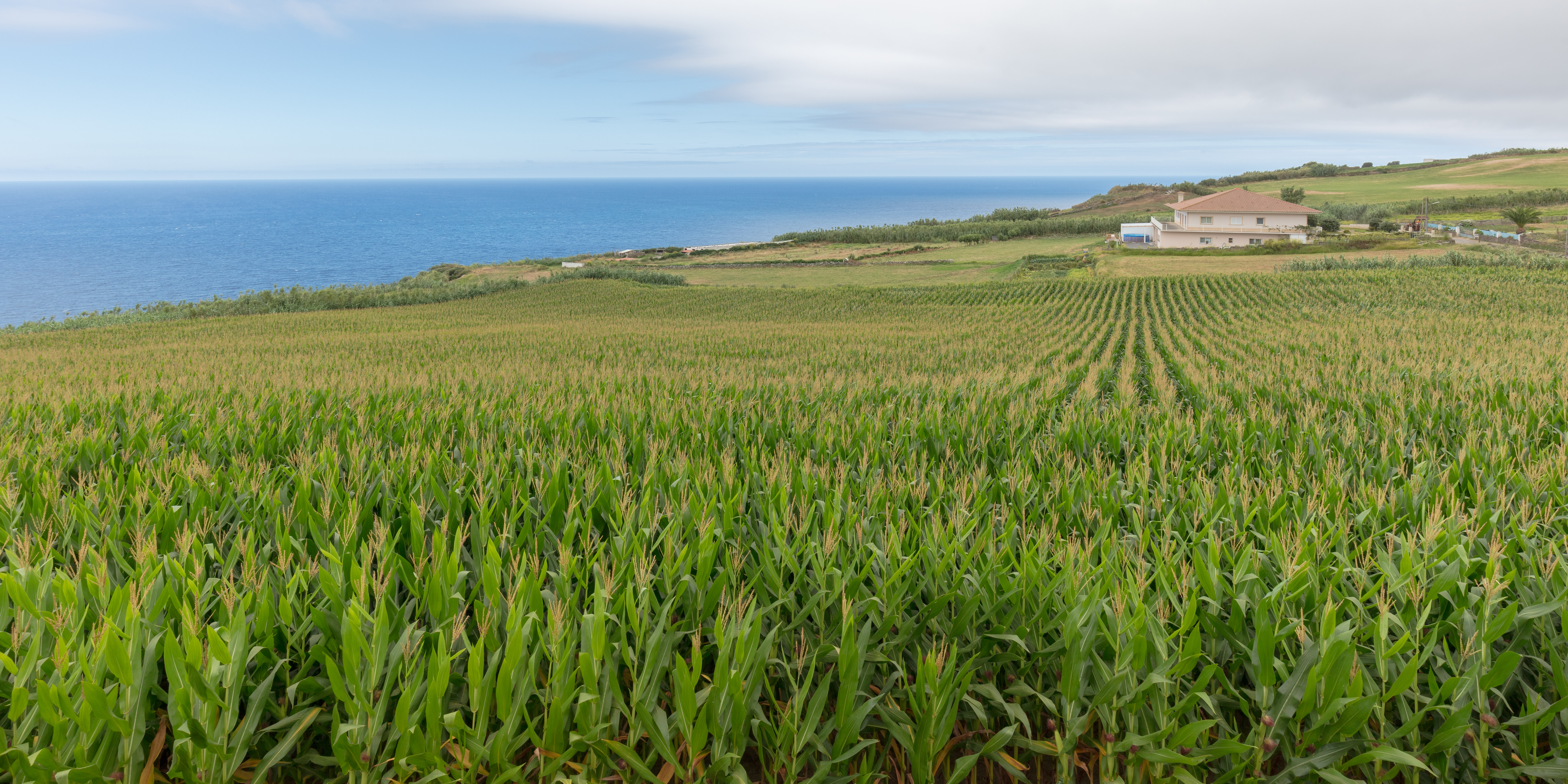 Maize field, Relva, São Miguel Island, Azores, Portugal